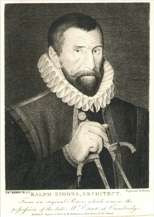 Portrait of the mason Ralph Symons (fl.1580-1610), c. 1595, holding a pair of architect's compasses. Engraving by Georg Siegmund Facius (1803) after a crayon drawing by Thomas Kerrich (1748-1828) 'From an original Picture which was in the/ possession of the late Mr. Essex at Cambridge'